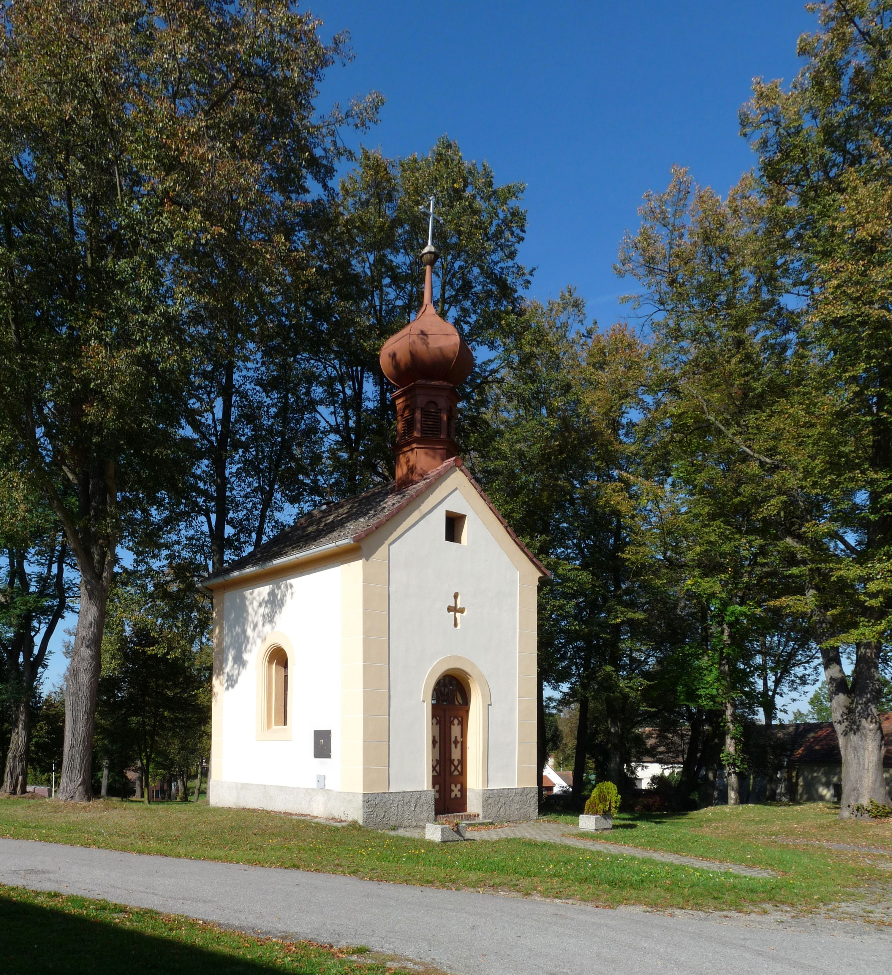 Chapel in the village of Malešice, České Budějovice District, South Bohemian Region, Czech Republic.